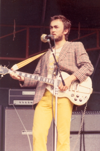 Ollie Halsall, playing at the Hyde Park Concert